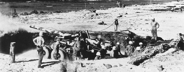 On drab, desolate Eniwetok, the 10th Defense Battalion test fires a 155mm gun out across an empty ocean. Despite the lack of threat of any immediate enemy attack, the weapon was camouflaged just in case Japanese planes flew over.